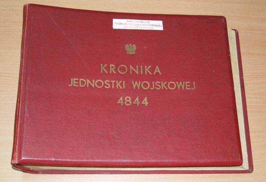 Kronika Jednostki Wojskowej 4844